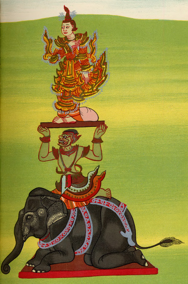 Hnamadawgyi nat (spirit), th in the official pantheon of Burmese nats